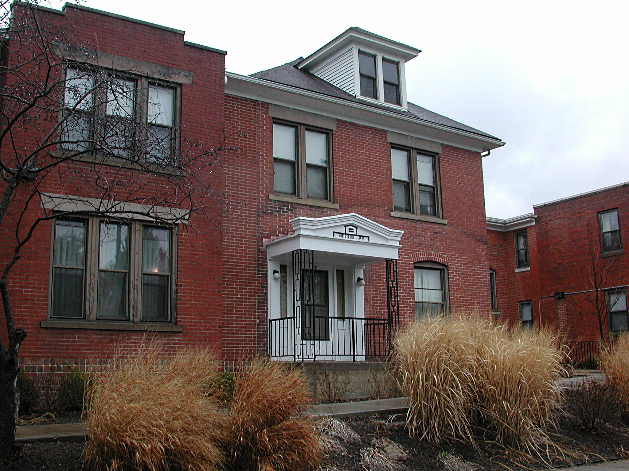 Original core of Sheltering Arms Hospital in Athens, Ohio; now apartments.